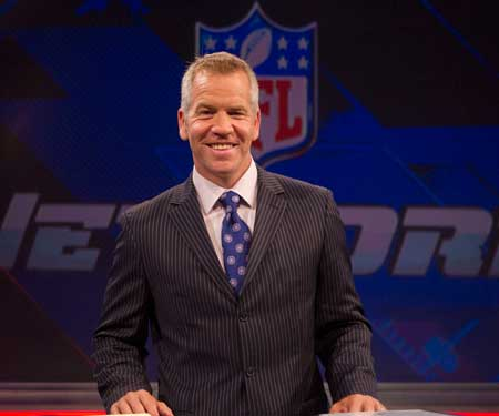 Paul Burmeister behind the desk at NFL Network